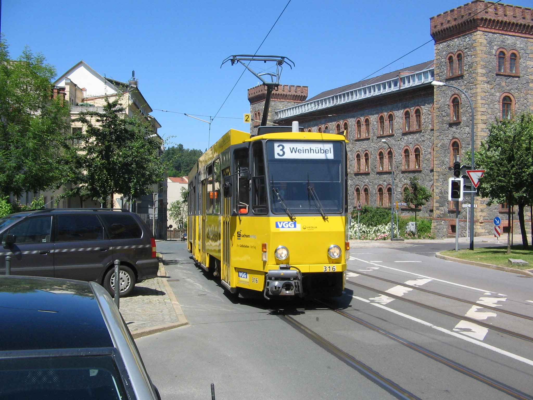 Streetcar No. 316 by Jägerkasserne.